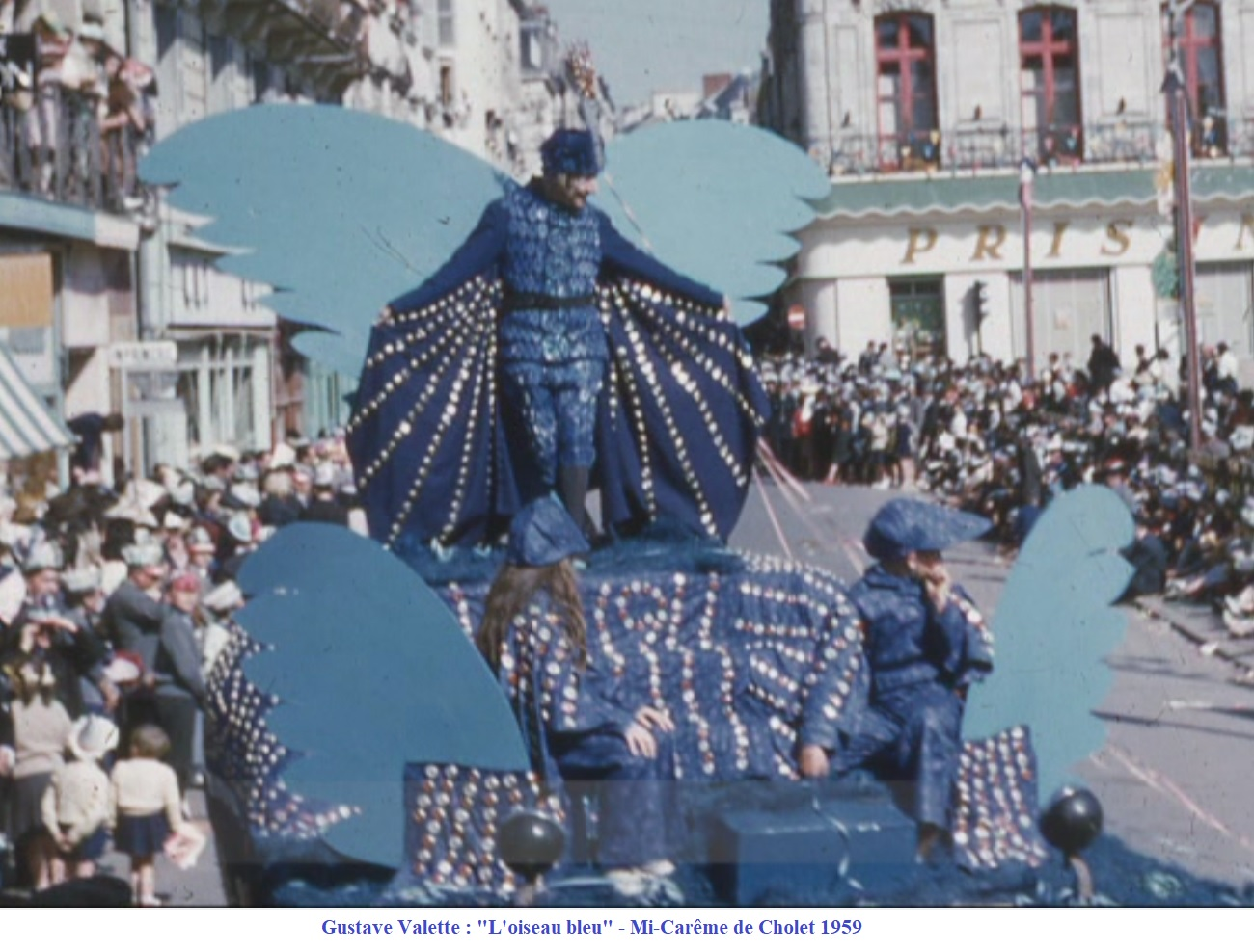 Gustave Valette, Cholet carnival, tailor by profession, costumed costume designer, who will win 28 first prizes in his category at the Mid-Lent of Cholet between 1906 and 1961